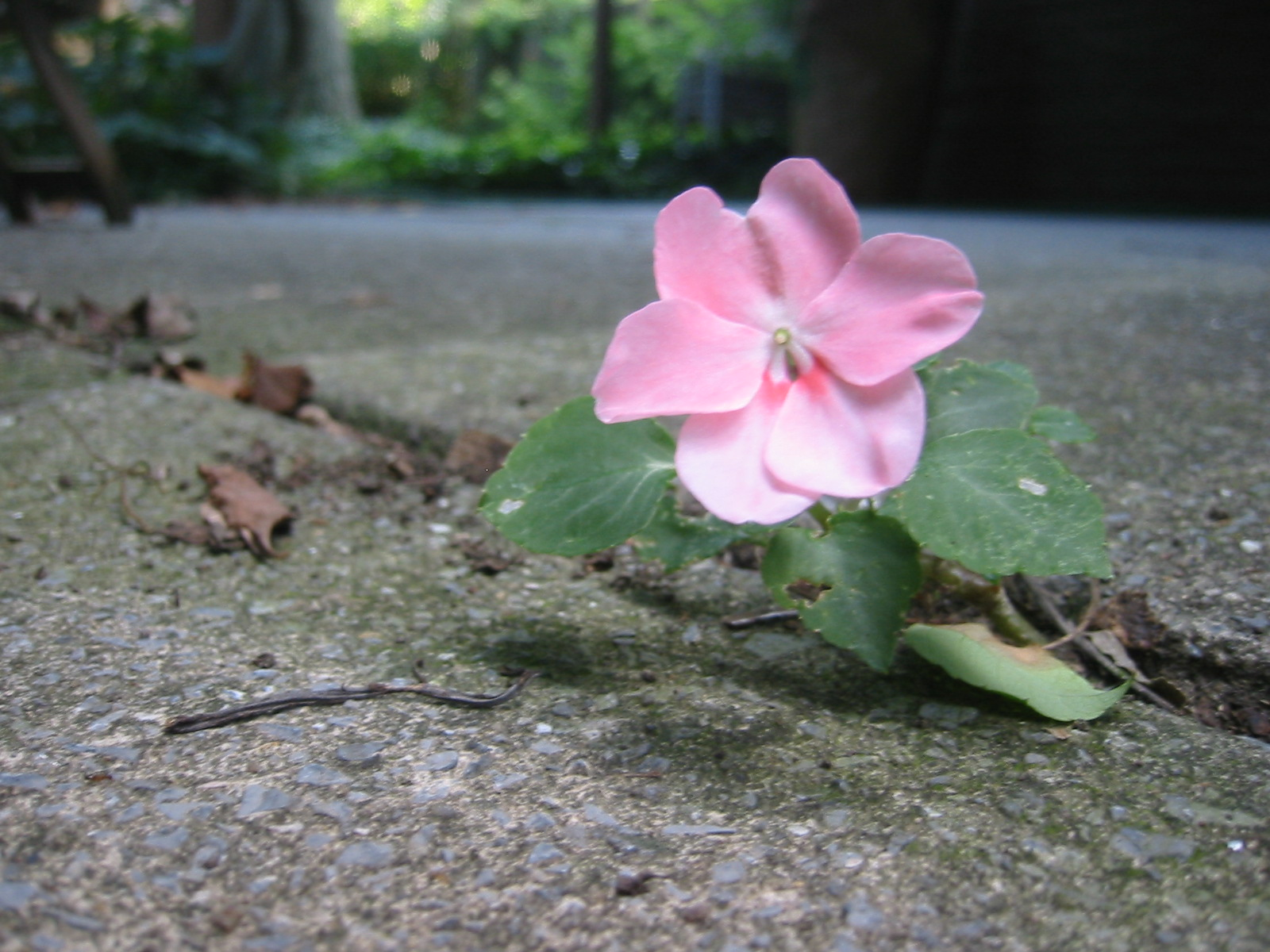 Impatient impatiens grew in sidewalk crack